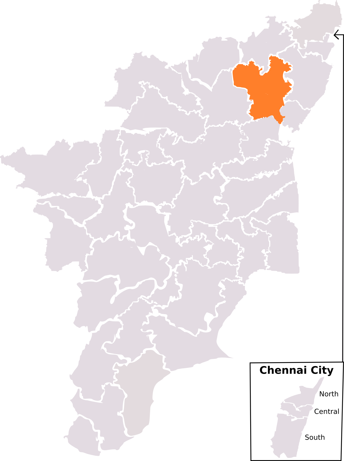 Lok Sabha Election map labeling each constituency for individual pages for Tamil Nadu after delimitation starting 2009 election. Map is based on ECI drawn map from